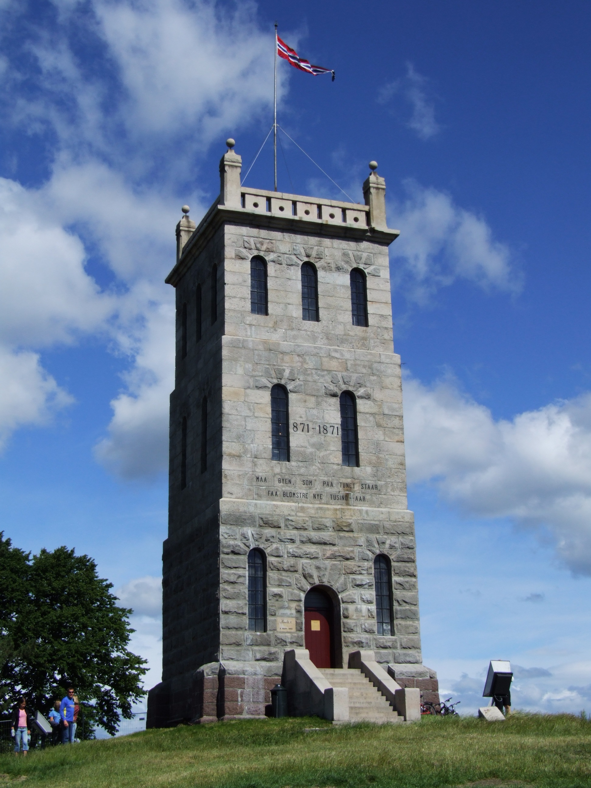 Tower in Tønsberg, Norway